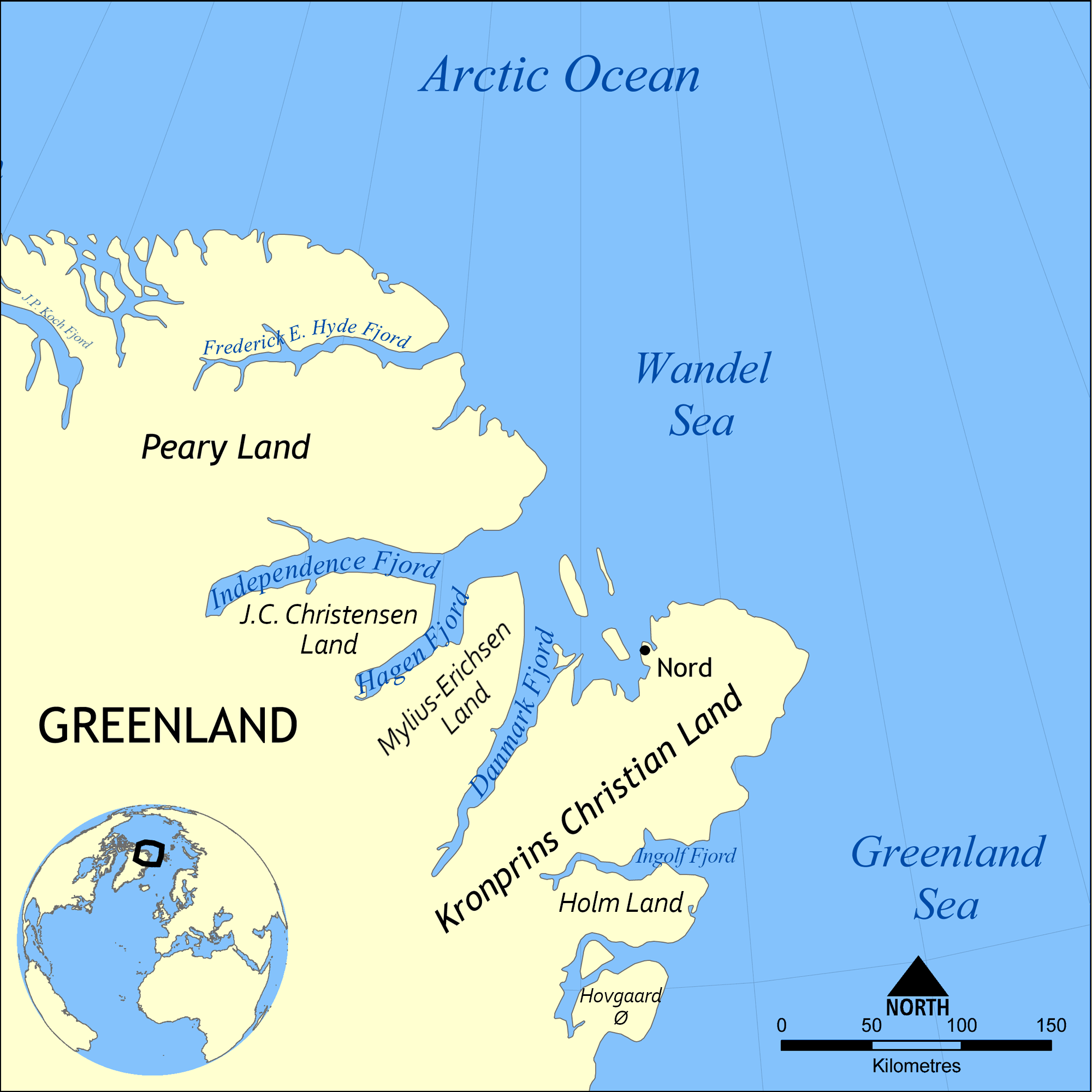 This map shows the location of the Wandel Sea northwest of Greenland and west of Svalbard. Nearby bodies of water include the Arctic Ocean, of which it is part, Greenland Sea, Lincoln Sea, Norwegian Sea, and Barents Sea.